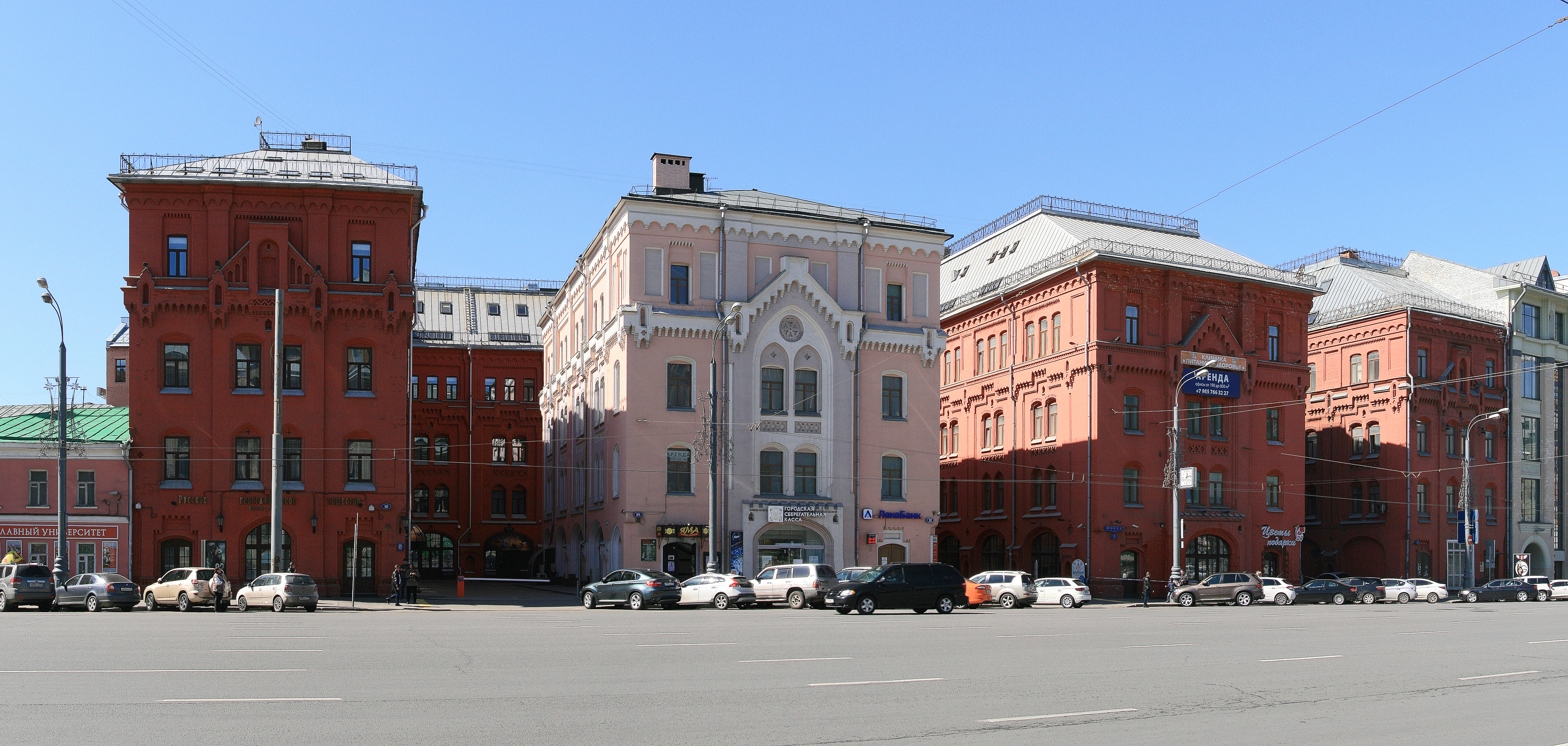 Building of B. Freydenberg, 1882, Novaya Square 8-10, Moscow